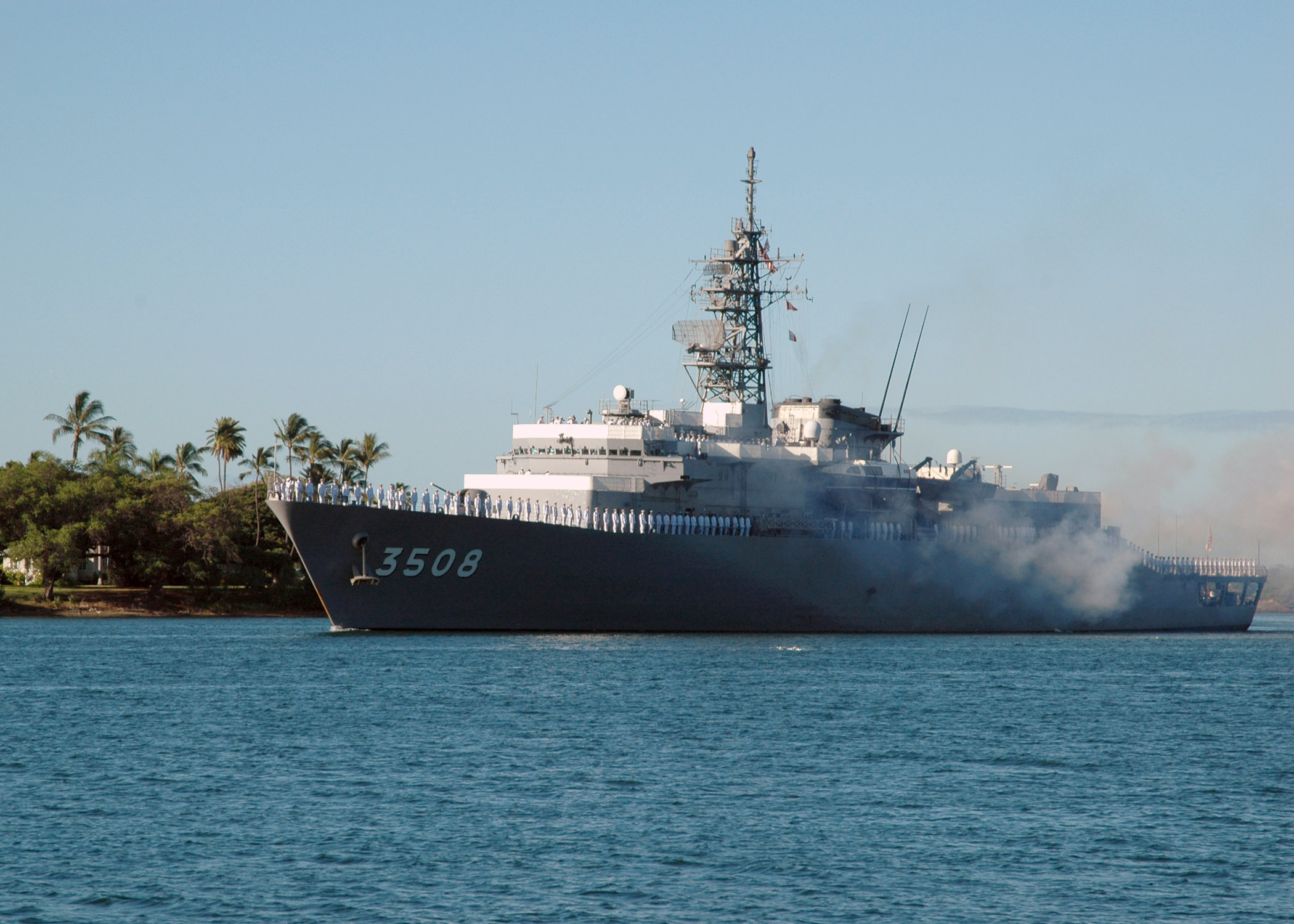 Pearl Harbor, HI (Aug. 18, 2006) - Sailors stationed aboard JDS Kashima (TV 3508) man the rails while rendering honors during a 21-gun salute as they enter Pearl Harbor. More than 1,000 sailors assigned to JDS Kashima (TV 3508), JDS Armagiri (DD 154) and JDS Yamagiri (TV 3515), led by senior representative of the Japan Maritime Self Defense Force, Rear Adm. Takanobu Sasaki, Commander, Japan Training Squadron, will be visiting Pearl Harbor during their training cruise. U.S. Navy photo by Mass Communication Specialist 1st Class James E. Foehl (RELEASED)